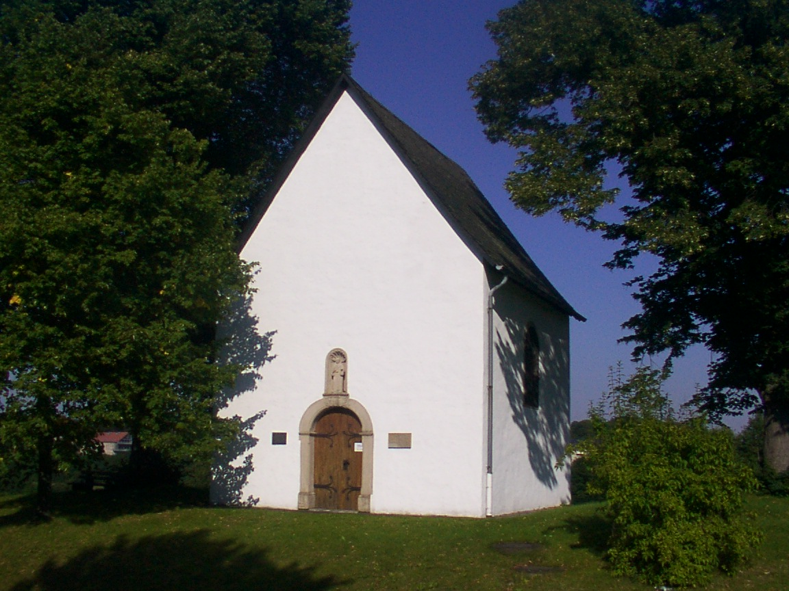 Saint Gall chapel in Kirchborchen, municipality of Borchen, Germany